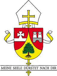 Coat of arms of Stephan Turnovszky, auxiliary bishop of Vienna